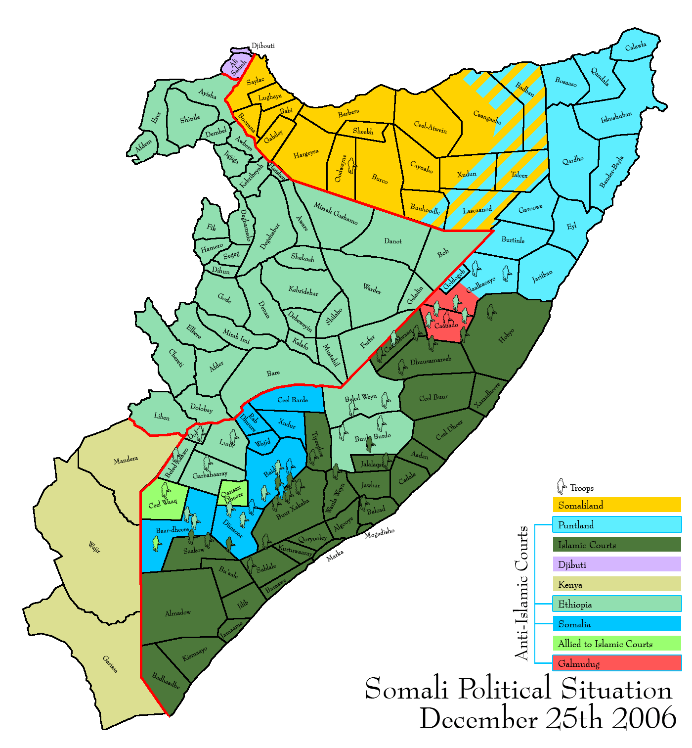 Somali Political Situation as of December 25th 2006.